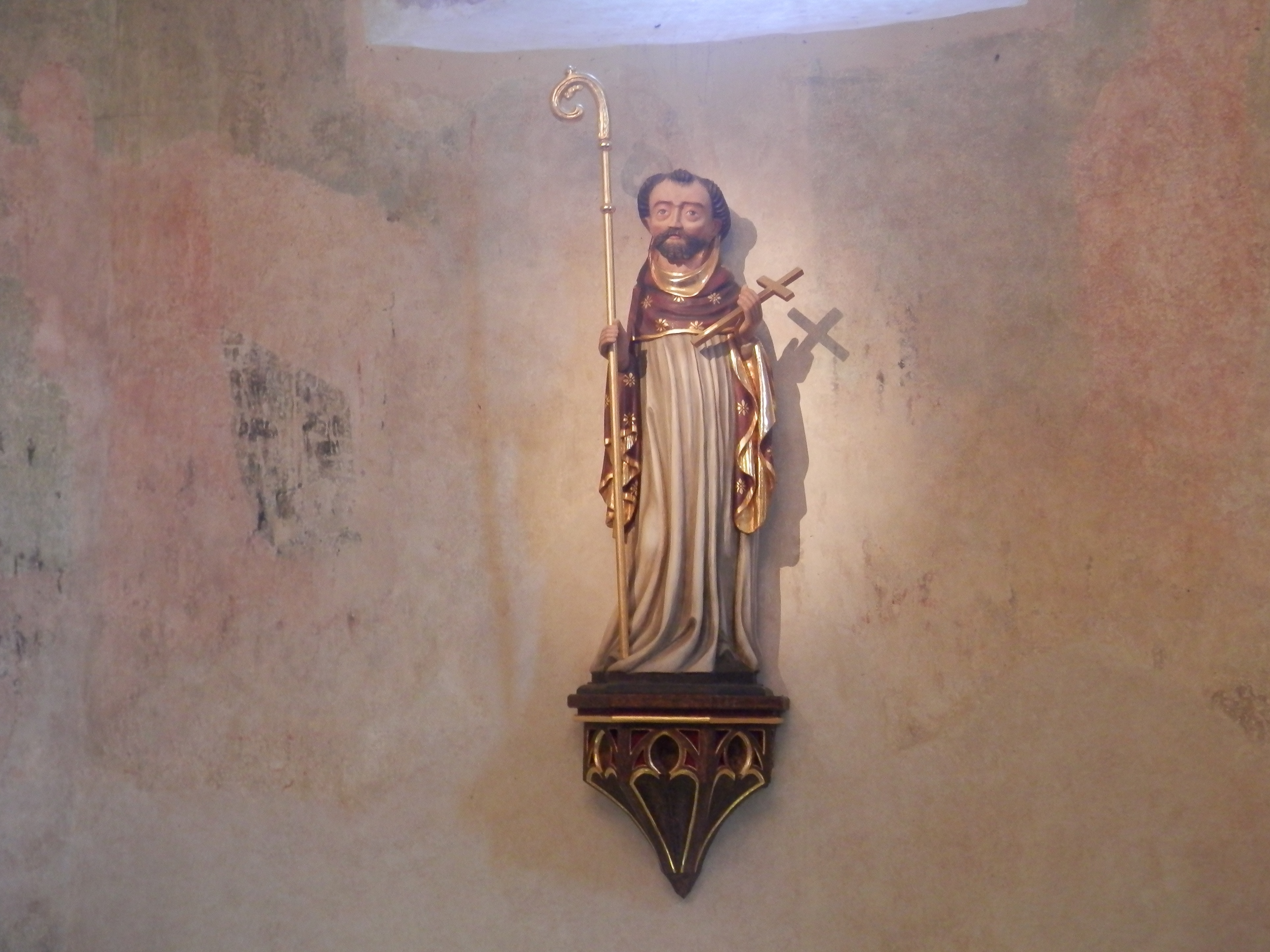 St.Procopius statue, Praskolesy